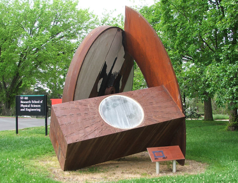 Remains of the RSPhysSE, ANU Homopolar generator